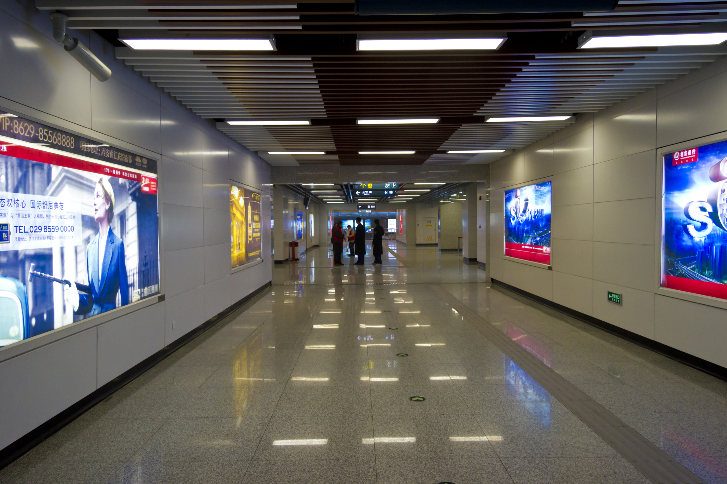 Xi'an Metro Line 2 ZHONGLOU Station platforms